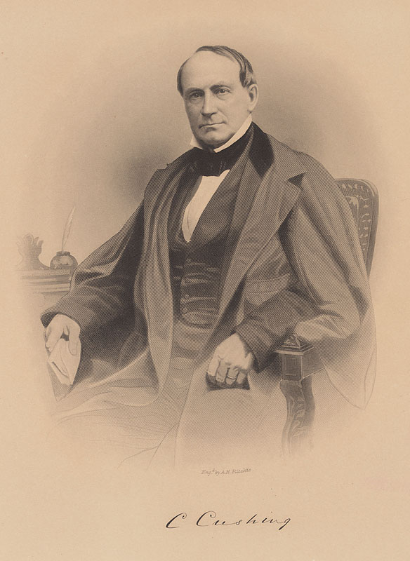 Engraved portrait of statesman and diplomat Caleb Cushing by Alexander Hay Ritchie (1822-1895). Engraving on paper. Cushing is portrayed in three-quarters length, turned to left, wearing his robes of office. Image courtesy of the Harvard Law School Library, Harvard University, Cambridge, Mass.